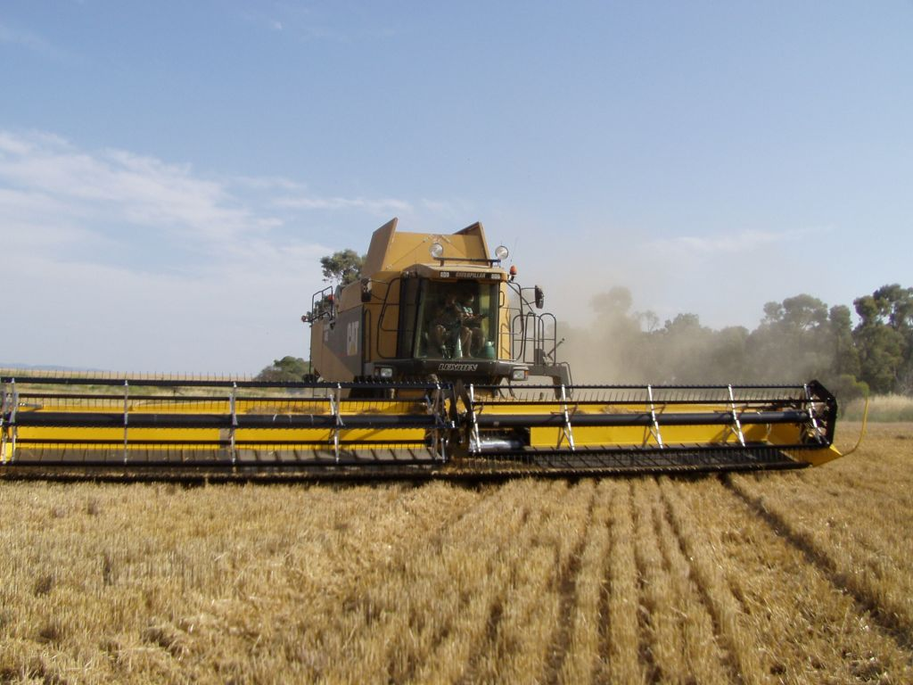 A huge 42 foot Caterpillar Lexion combine harvester in New South Wales. One of only 3 in Australia.